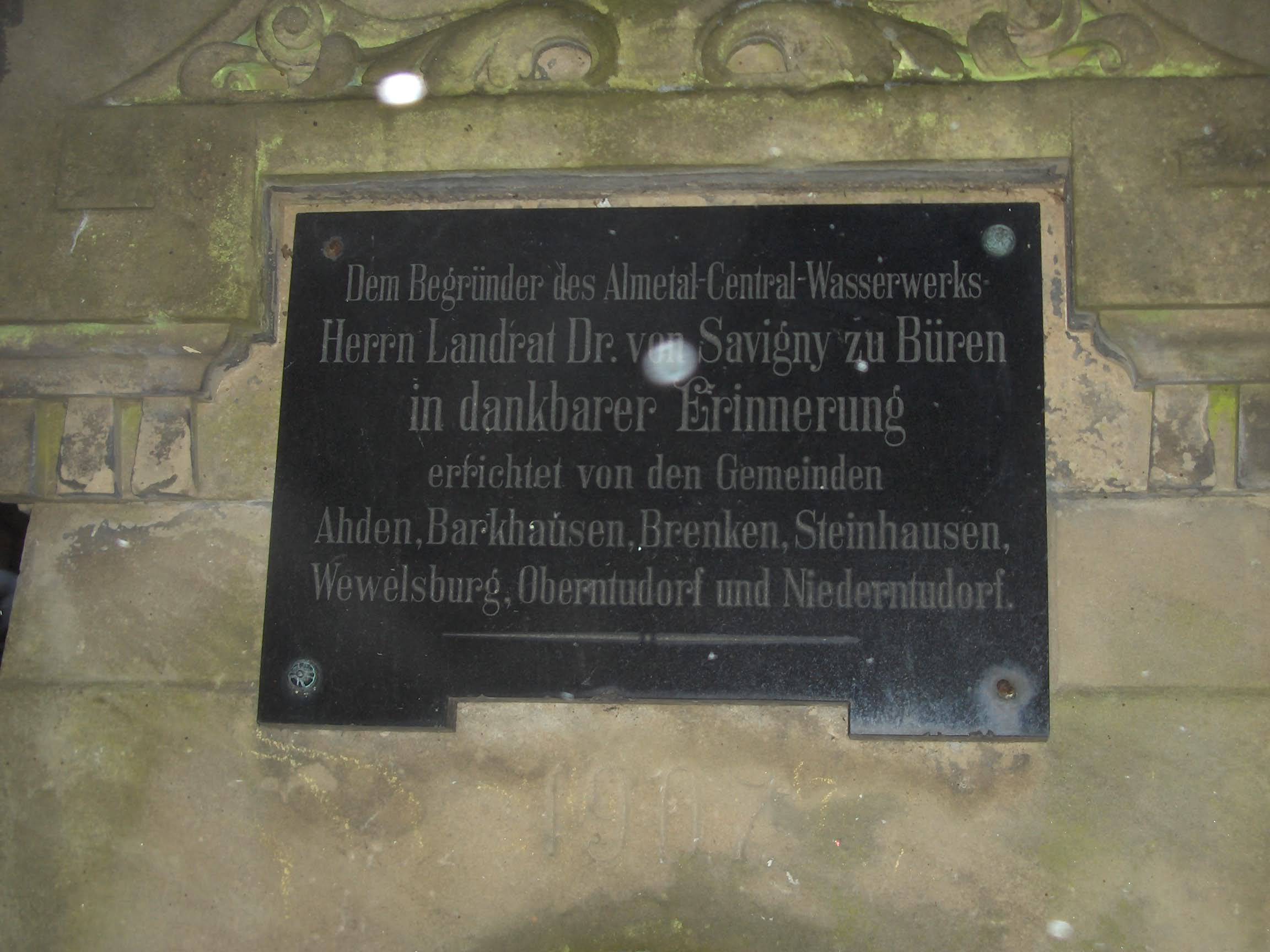 Writing on the water monument in Wewelsburg